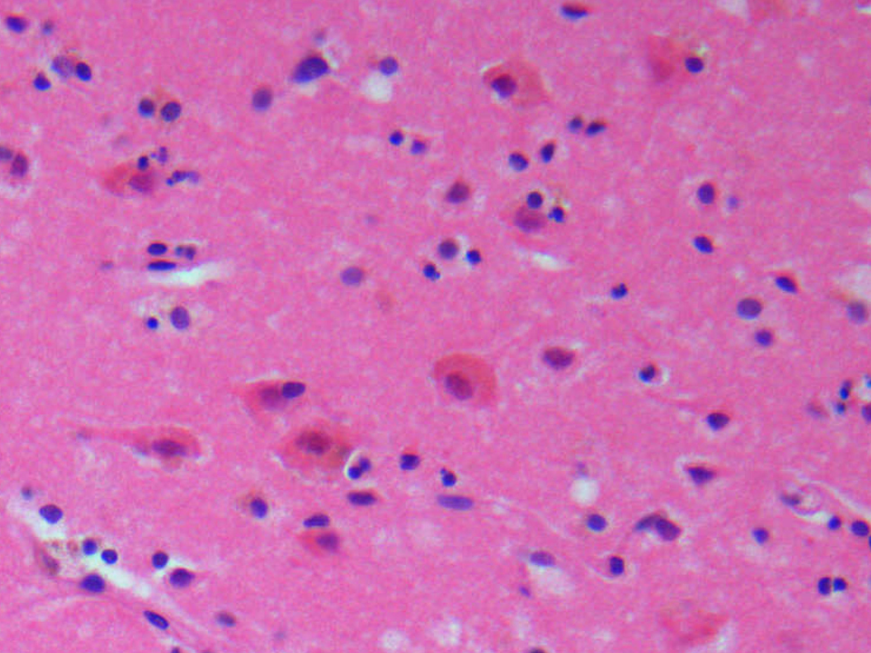 Microphotograph of HE stained section of human brain tissue upon acute ischemic stroke. Orgininal magnification 400x